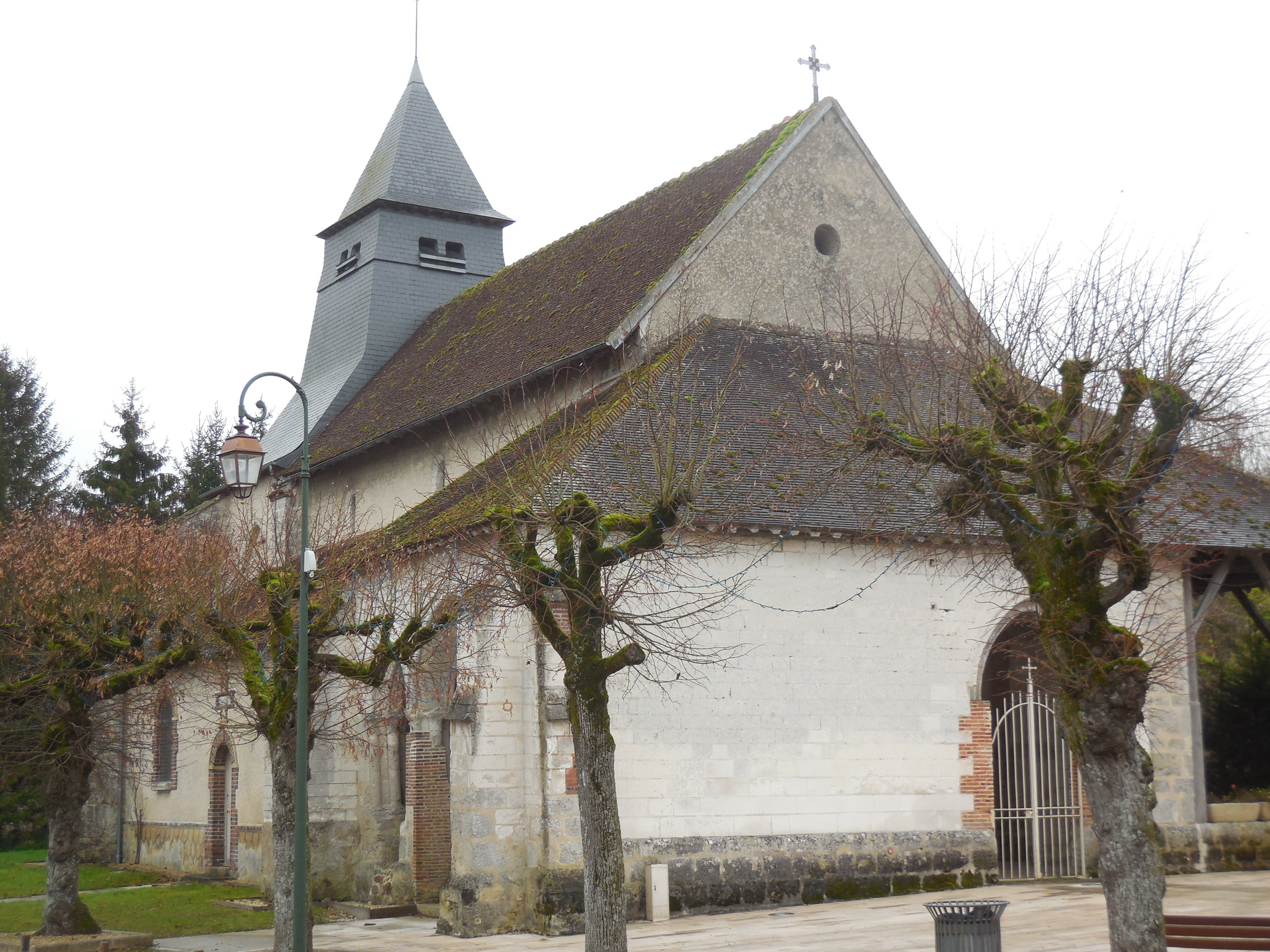 Saint-Peter-Saint-Paul church of Faux-Fresnay (Marne, France)